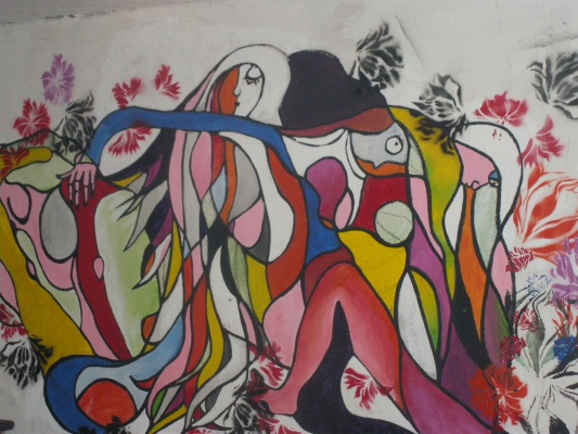 Espacio Anarcofeminista del Auditorio Che Guevara